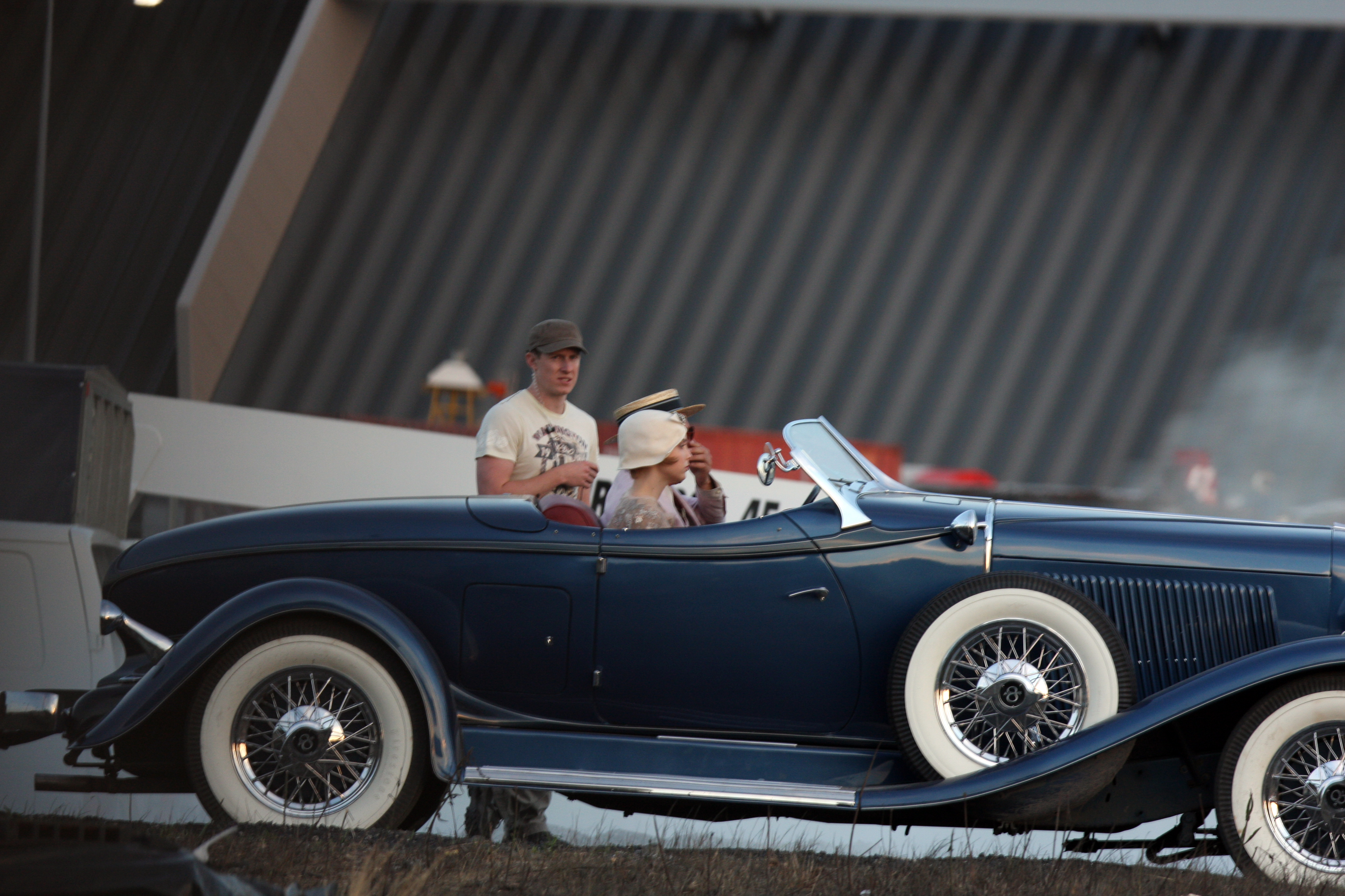 Leonardo DiCaprio and Carey Mulligan in a late-1920s Auburn Eight Boattail Speedster (models 8-99 to 8-120)